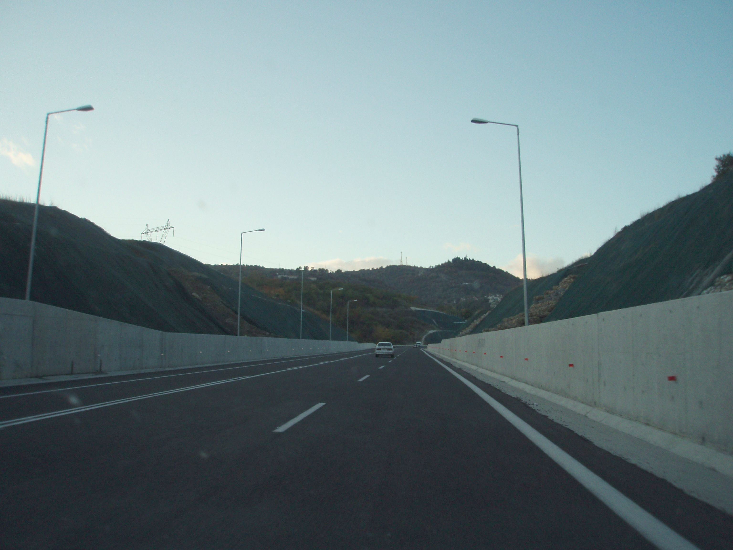 National Road 2, Greece. Recently opened Edessa bypass (section Rizari-Agras).